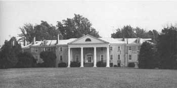 Montpelier, home of fourth US president James Madison, seen in 1975 during the duPont family's ownership of the property.